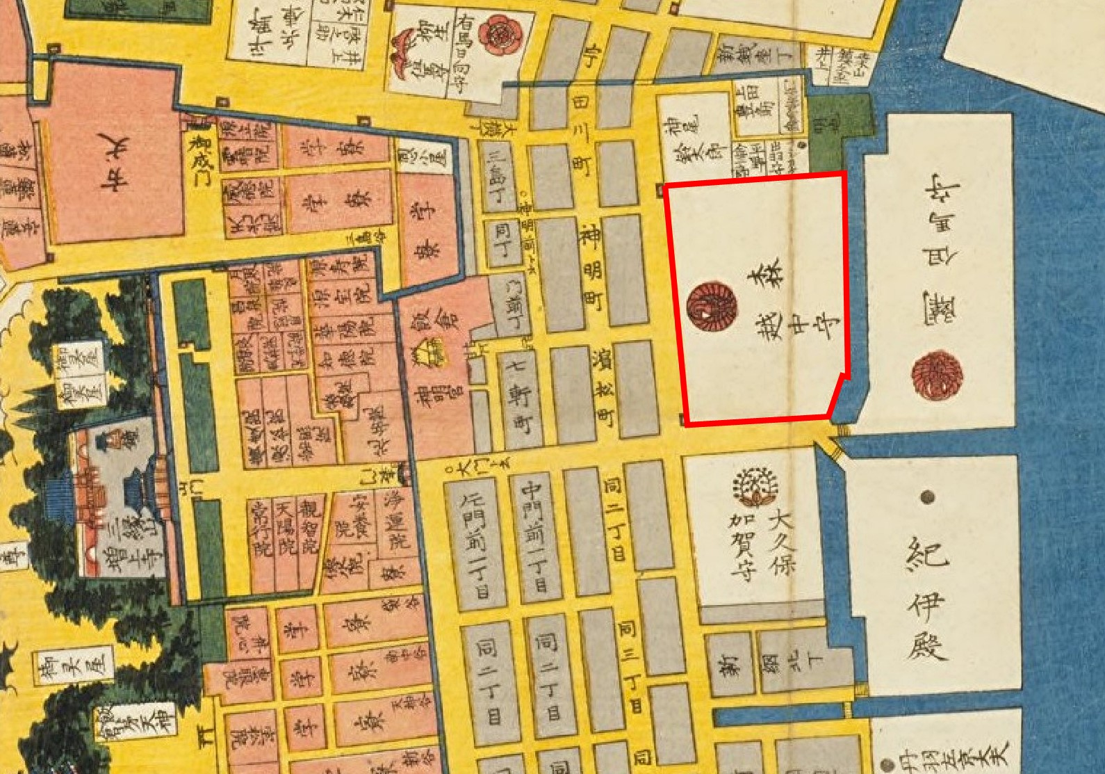 Residence of Mori clan at Edo